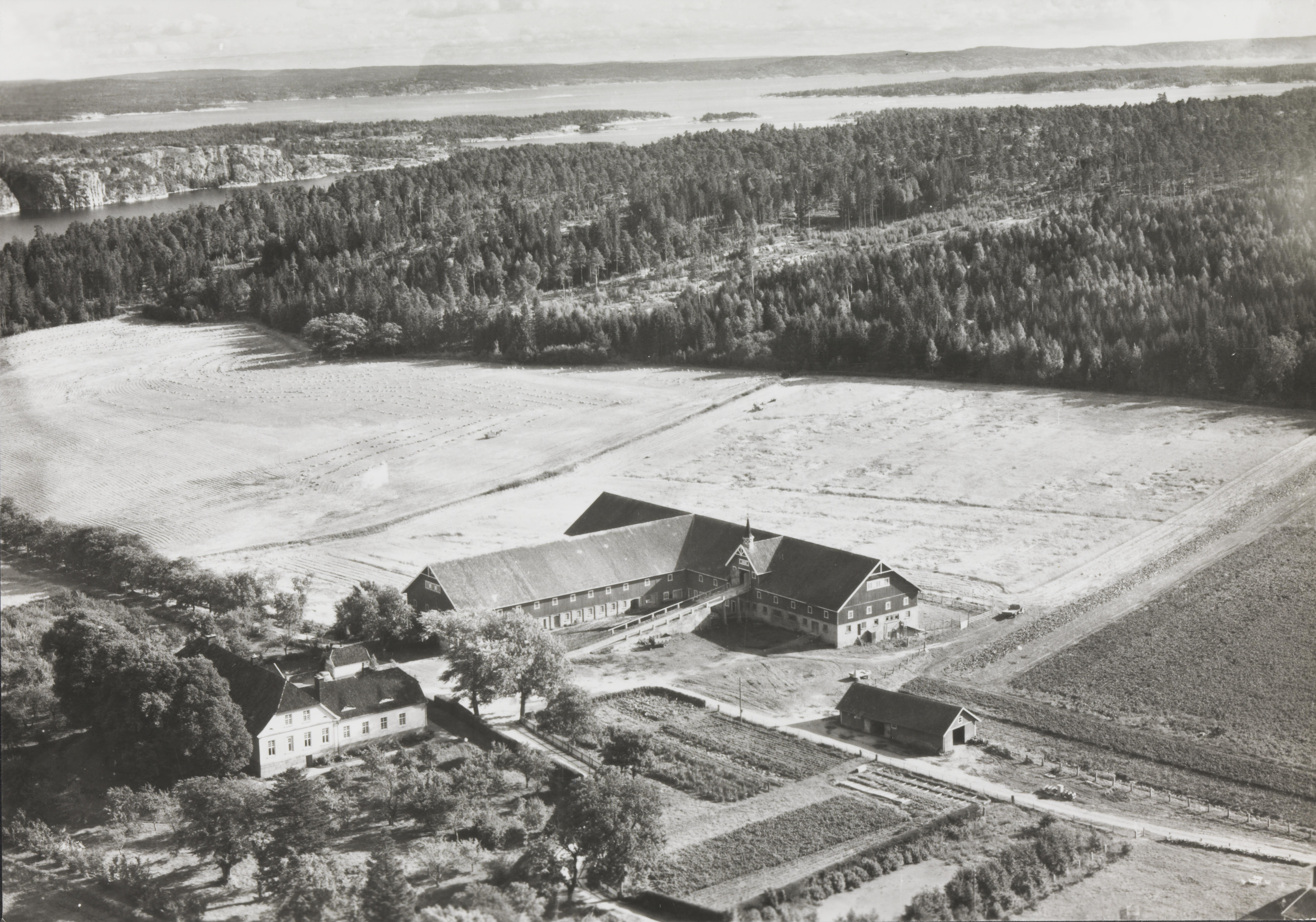 Thorsø manor in Fredrikstad, Norway. Postcard. From the National Library of Norway.